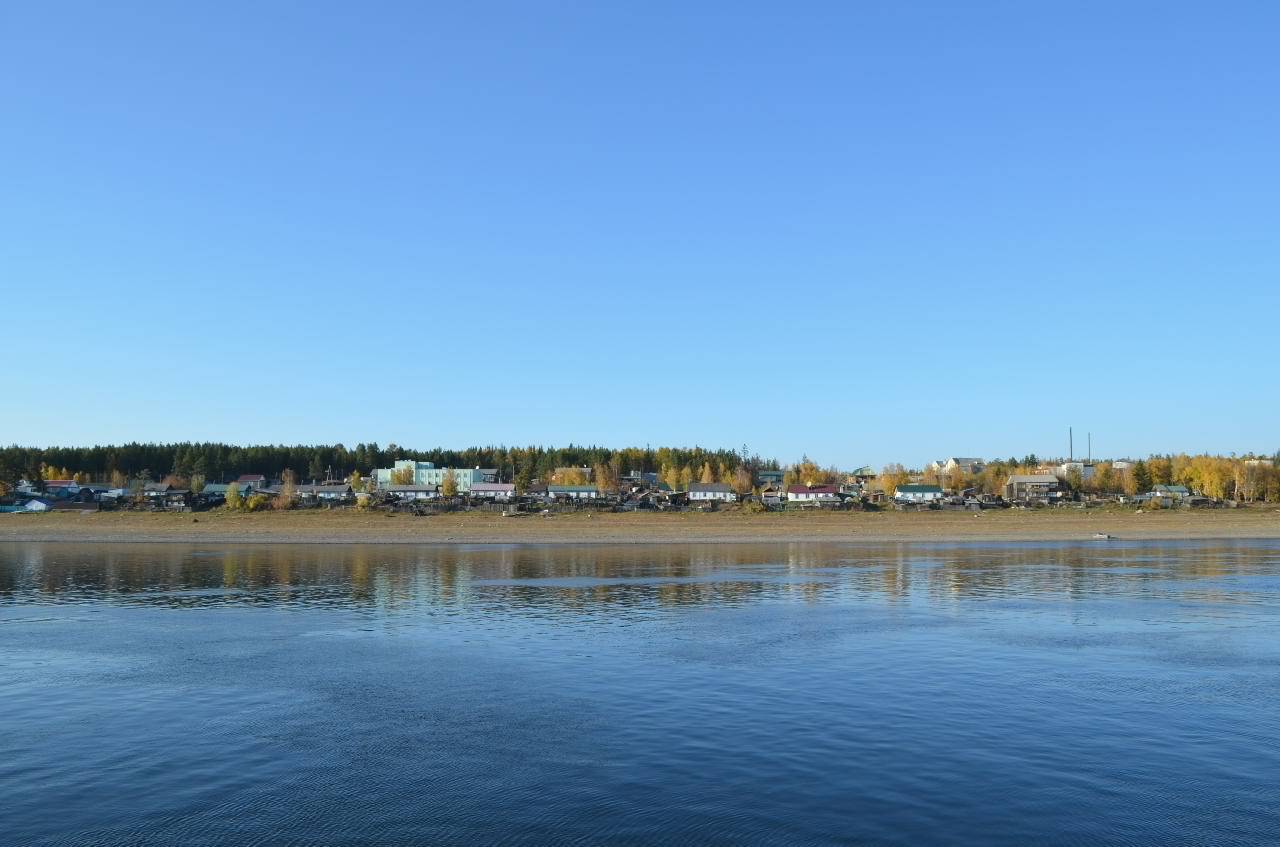 This photos are made during cruise Yakutsk — Lеnskiye Shchyoki, Lena Cheeks — Yakutsk (with arrival in Mirny), 05.09−17.09.2016